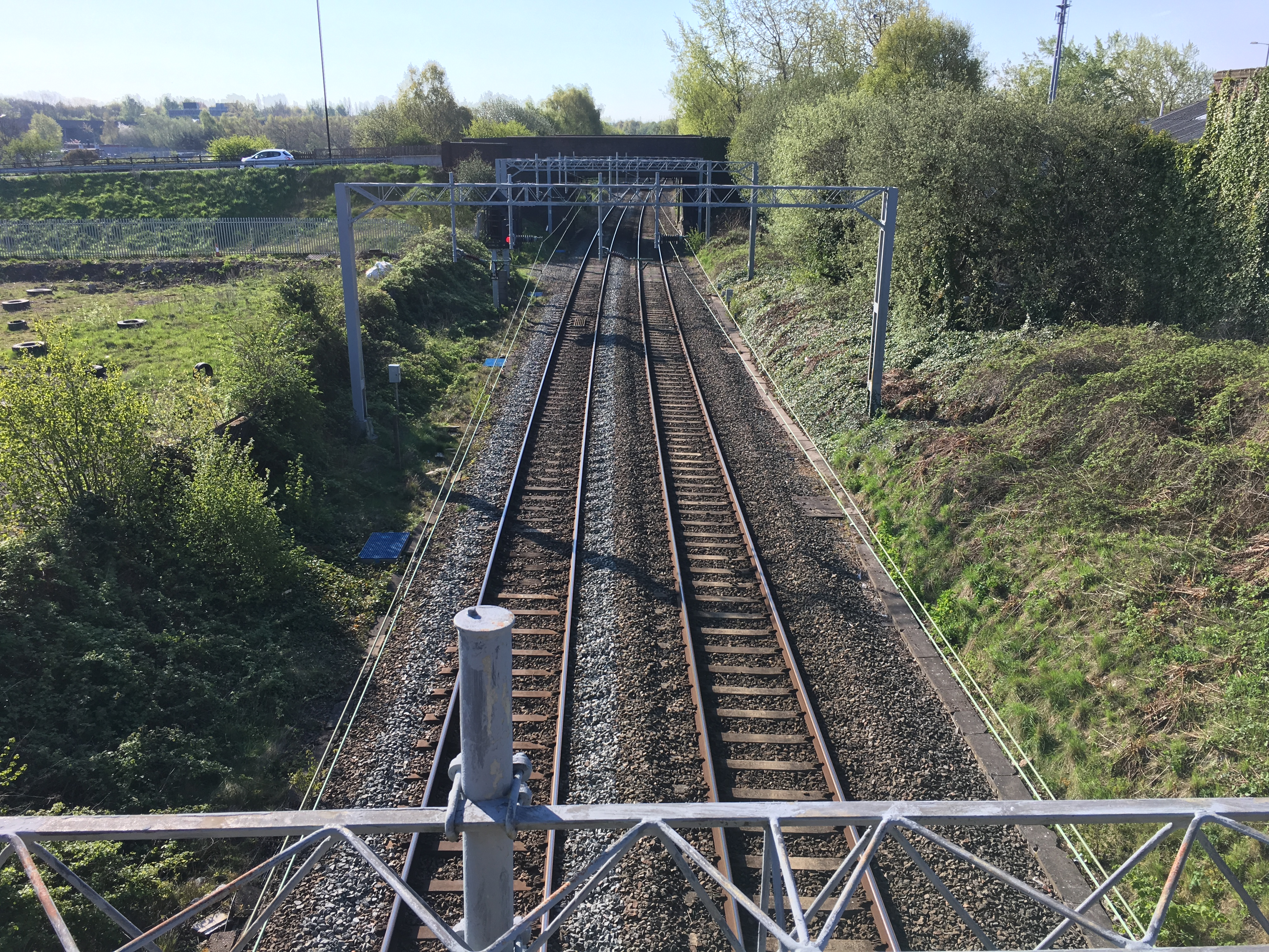 Site of the former Darlaston James Bridge Station